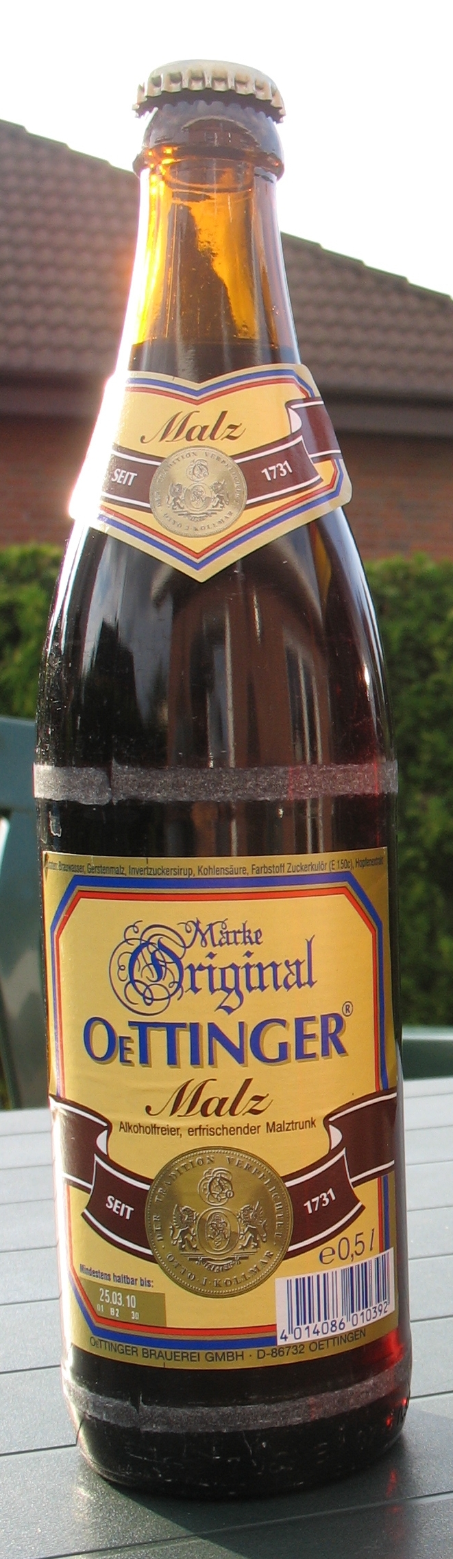 Oettinger Malzbier